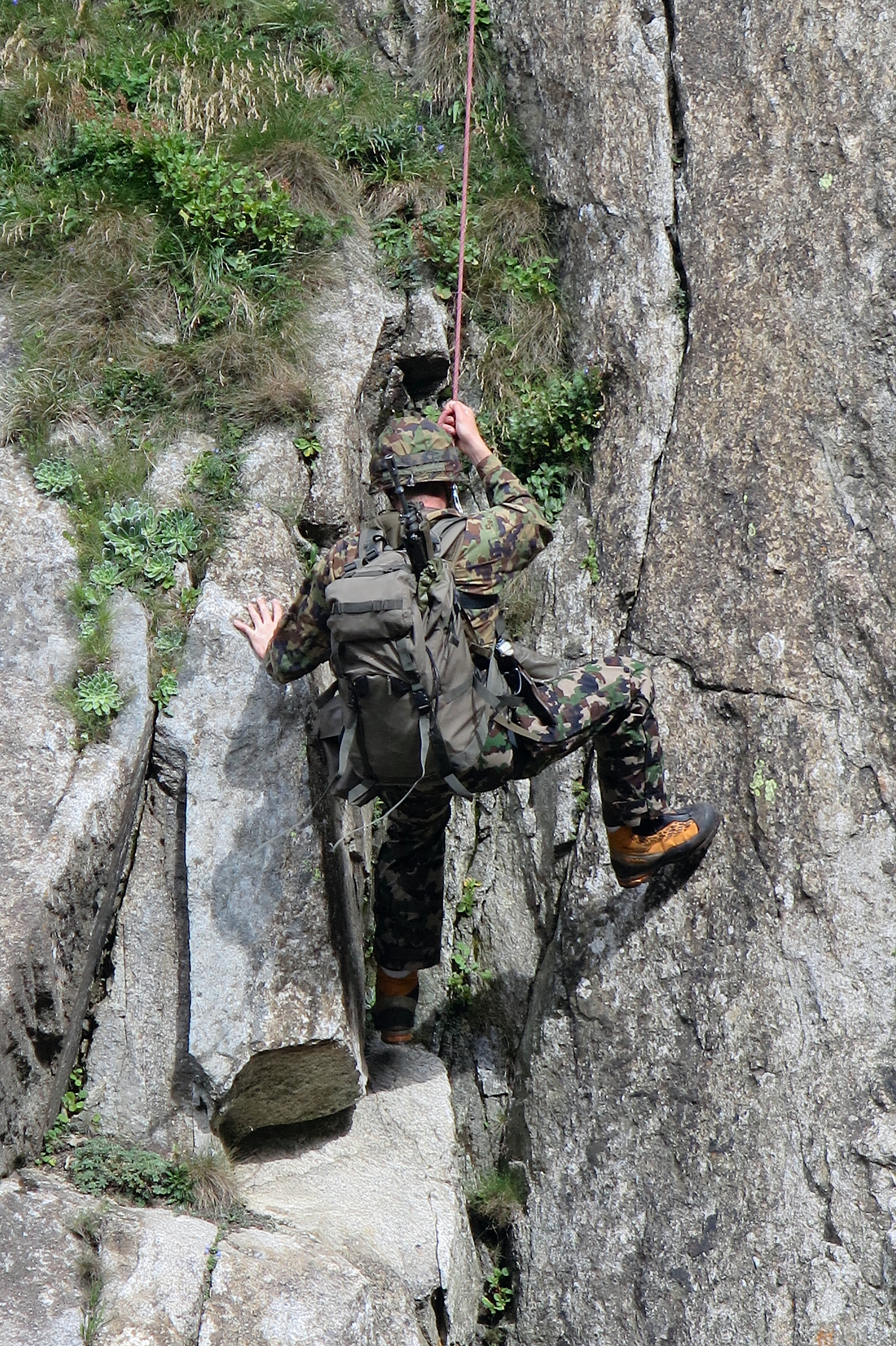 Mountain training in the Devil's Wall. Schöllenen, Canton of Uri, Switzerland, Aug 8, 2014.